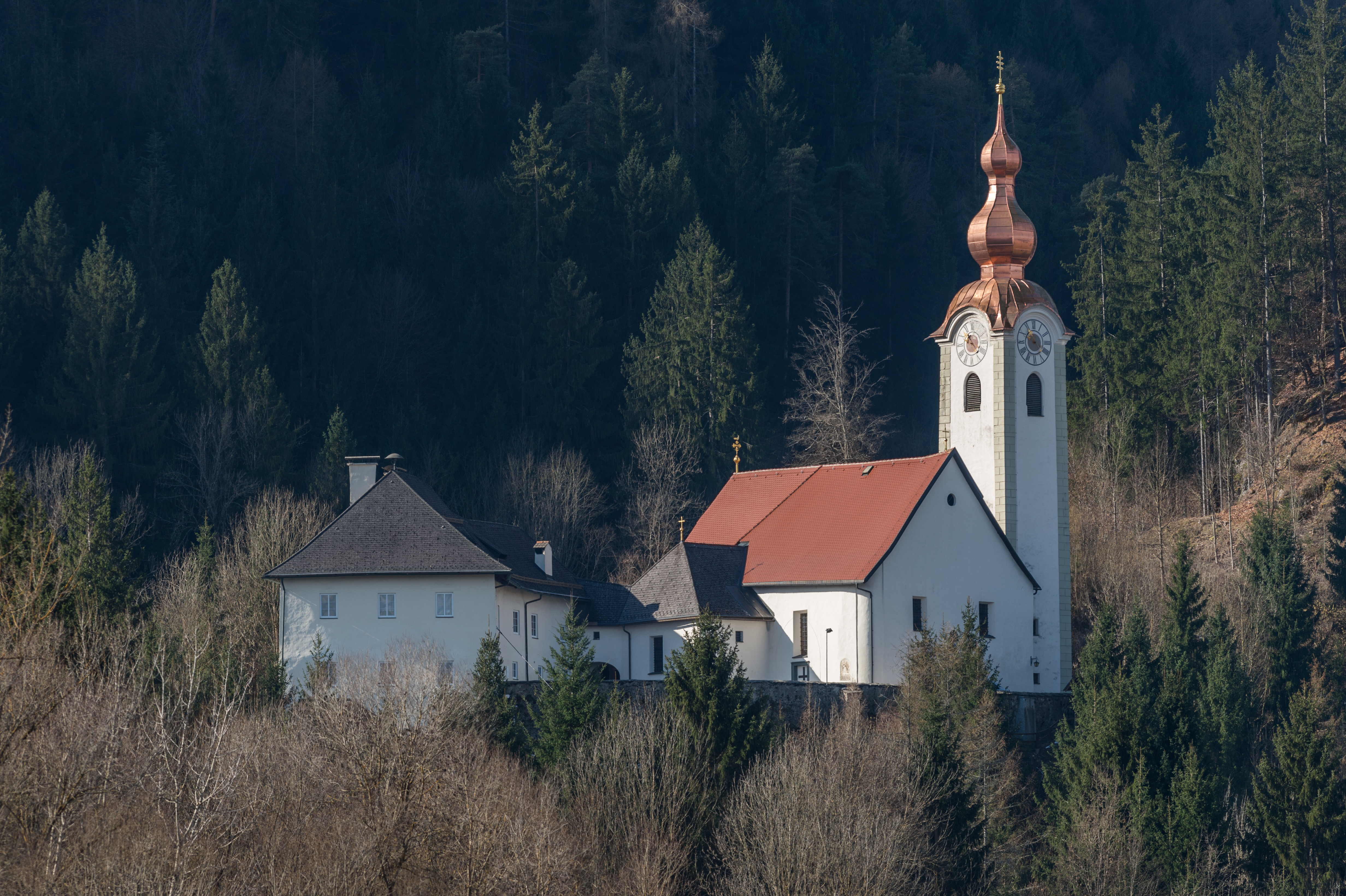 Collegiate church Saint Martin and provost house in Gurnitz, municipality Ebenthal in Kärnten, district Klagenfurt Land, Carinthia, Austria, EU